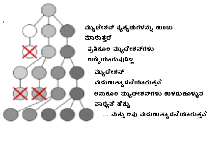 ಕನ್ನಡ: mutation selection